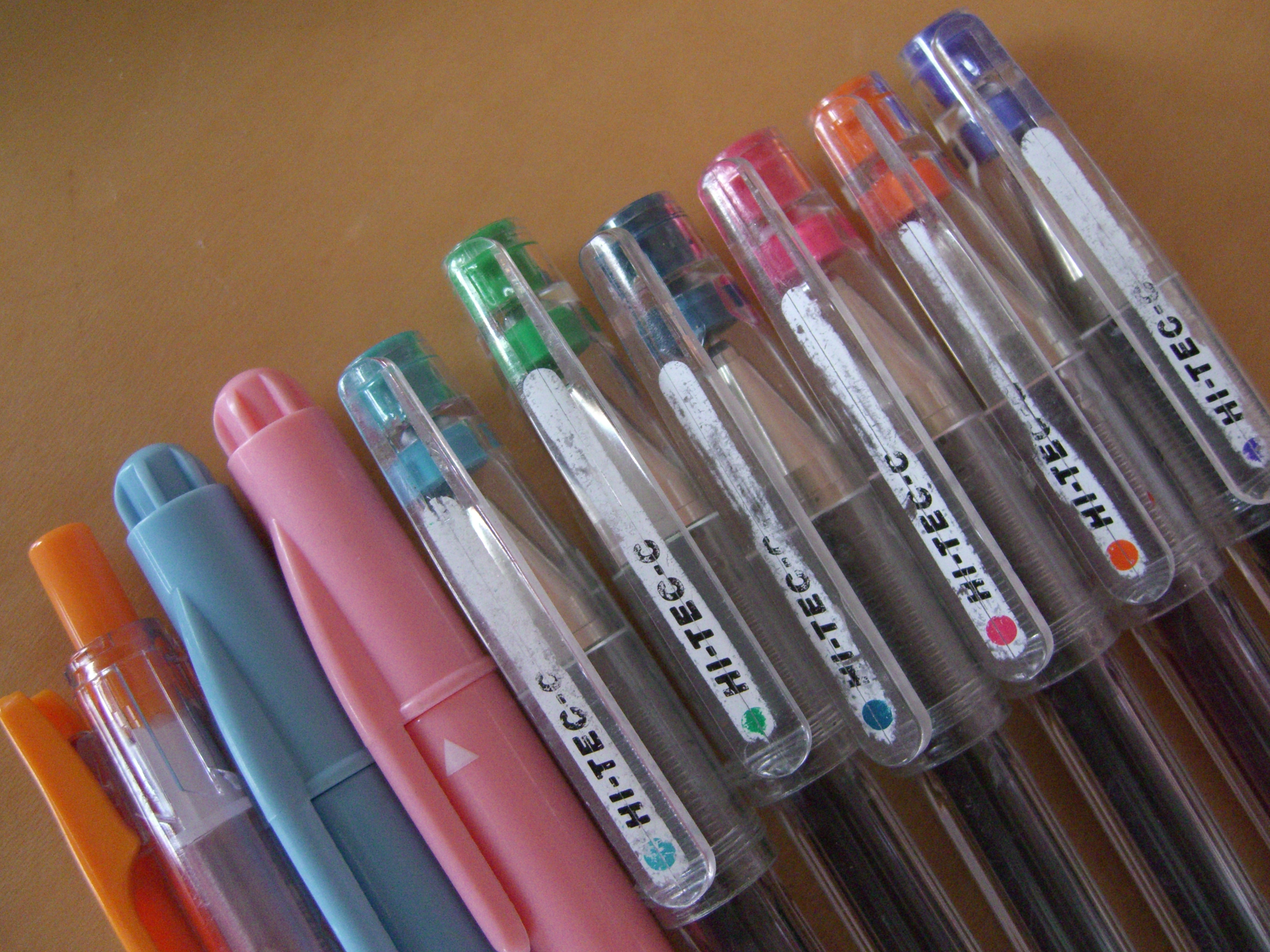 My Hi-TEC-Cs and Erk's Pens